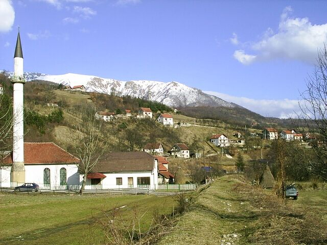 Village of Turbe near Travnik, Bosnia-Herzegovina